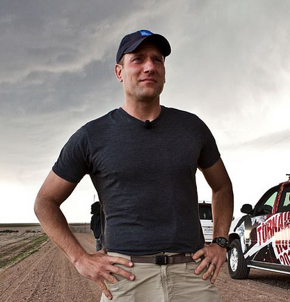 Storm Chasing with The Weather Channel's Tornado Hunt Team (2013)